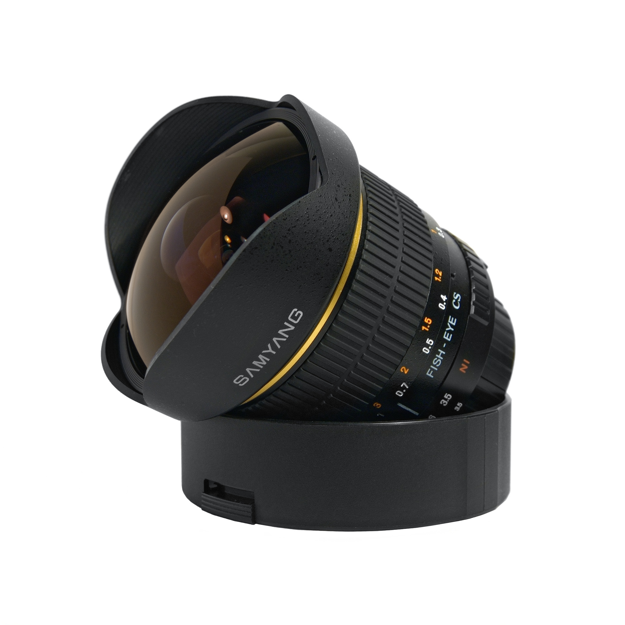 Samyang 8mm f3.5 CS fish-eye lens against a white background.